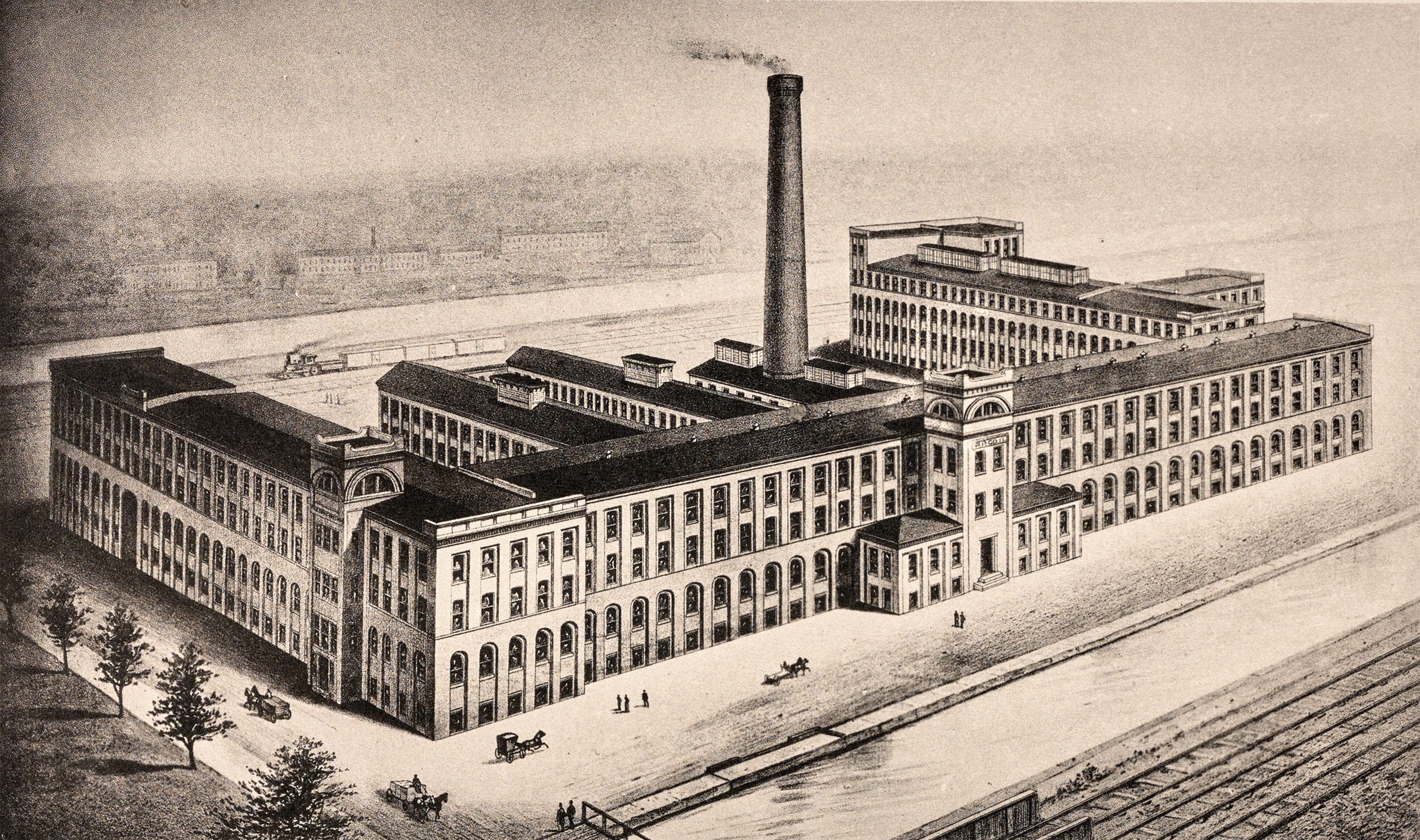 The Parsons Paper Company Mill No. 2; the last active paper mill in Holyoke- it shuttered in 2005, burnt down in 2008, and has been subsequently redeveloped as a solar project. The site it once stood is located at the corner of Sargeant and Main.